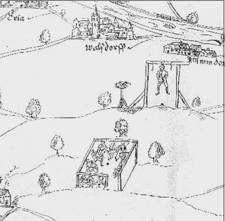 Martin Seger 1575, Walsdorf